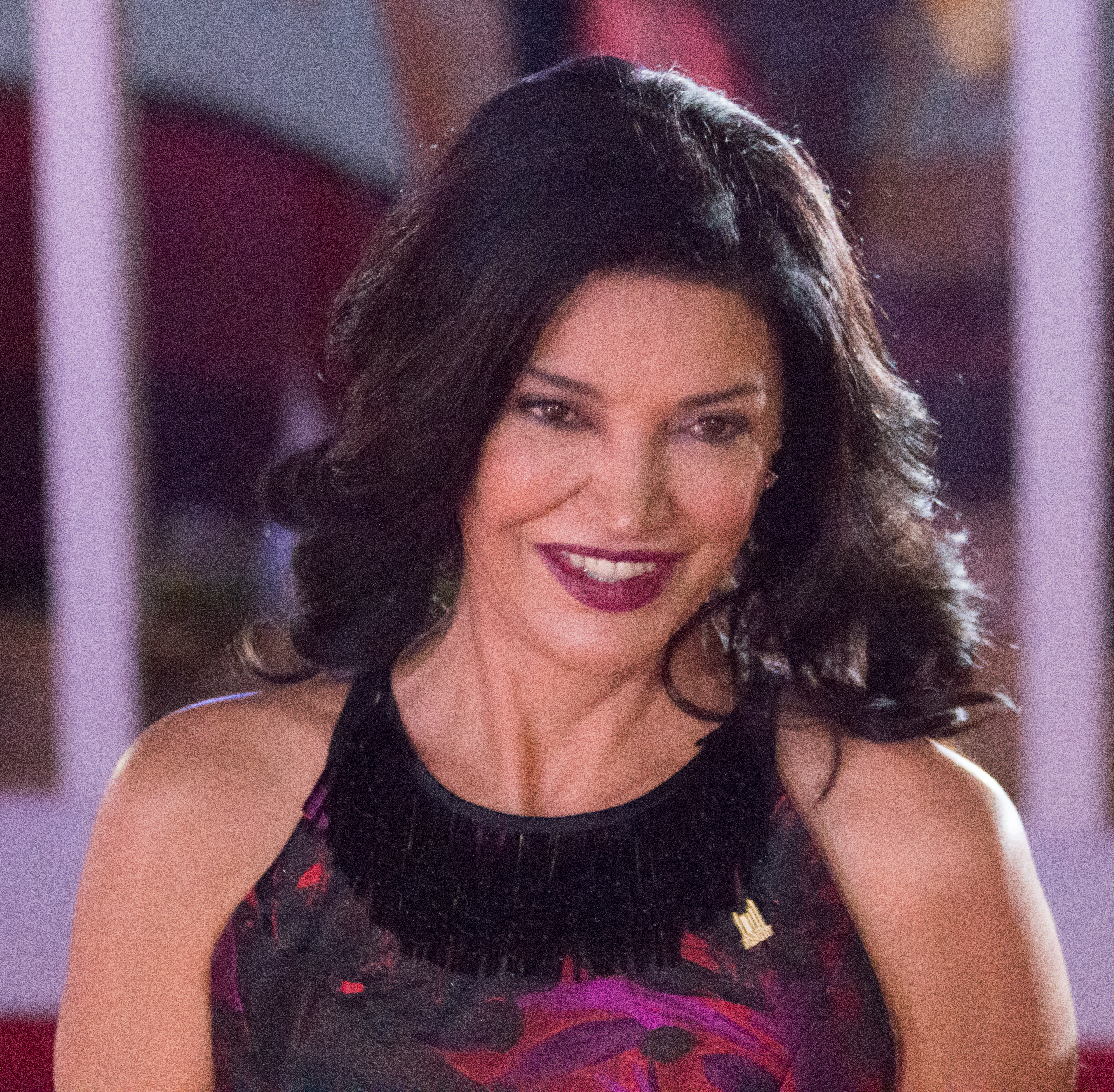 Shohreh Aghdashloo at the TIFF premiere of September Of Shiraz